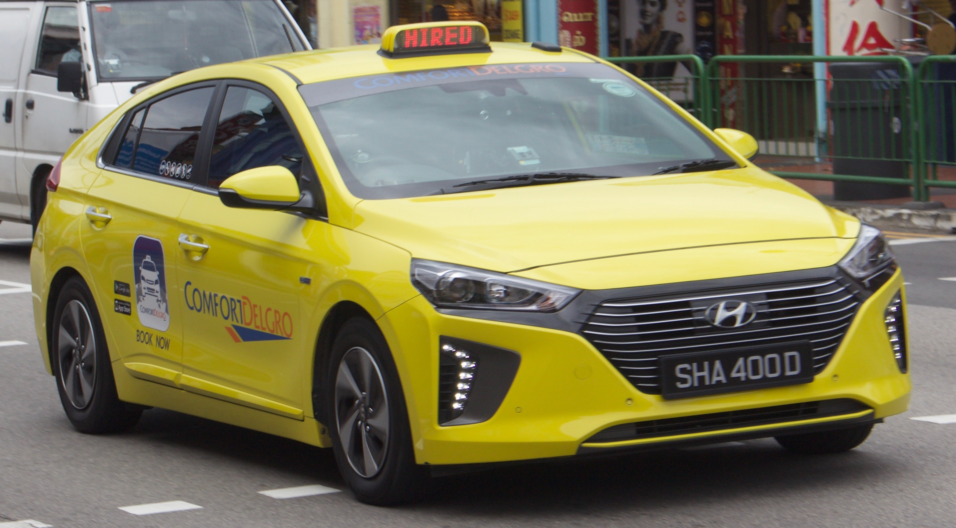 2016 Hyundai Ioniq (AE) Hybrid liftback, CityCab. Photographed in Singapore.